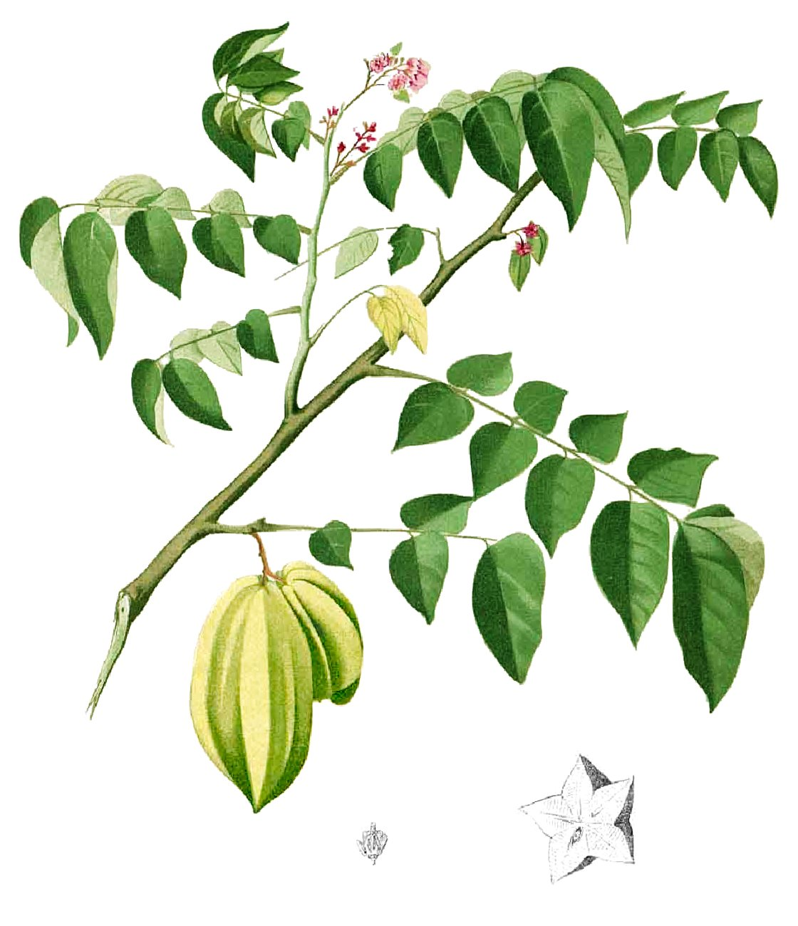 Plate from book